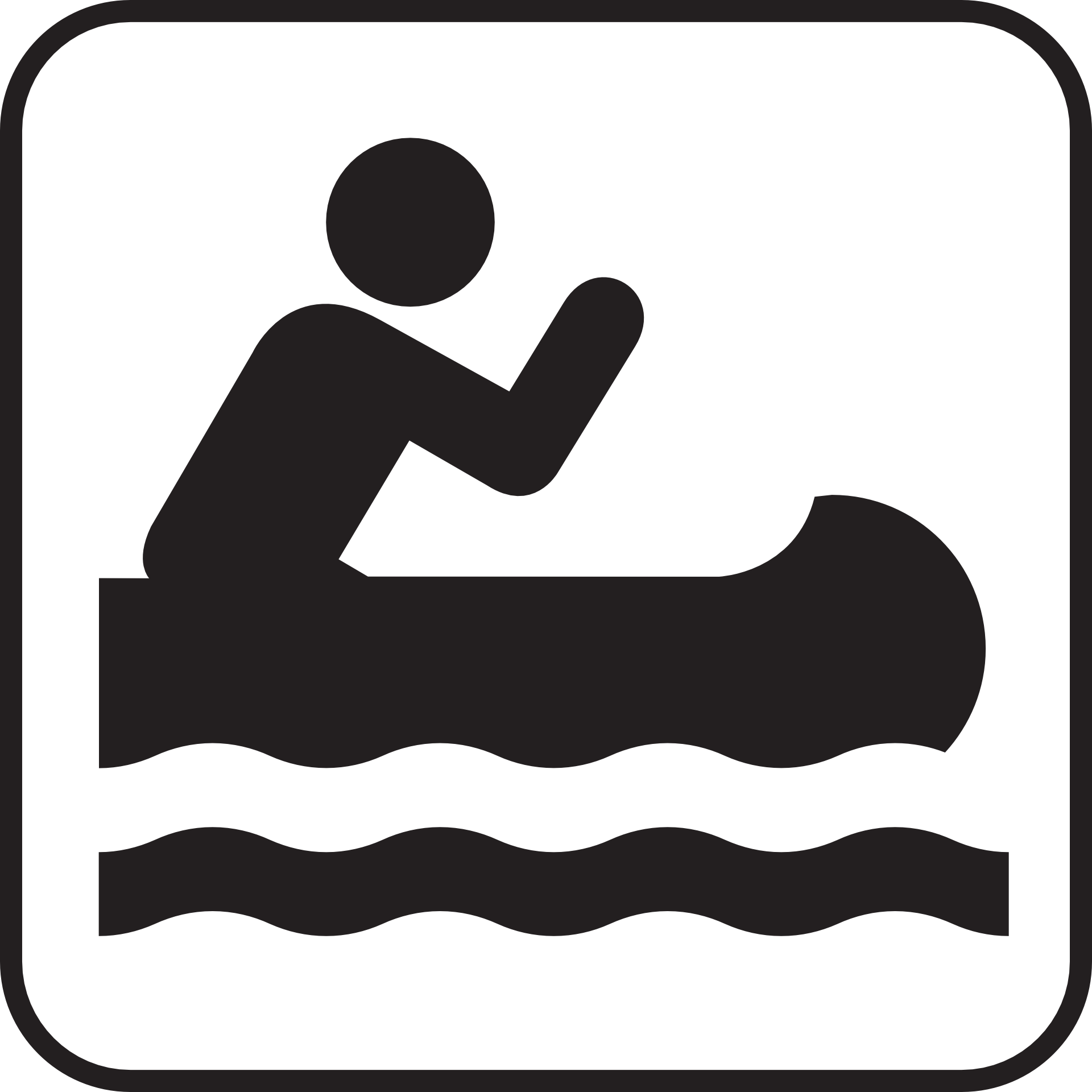 Canoe Symbol / Icon